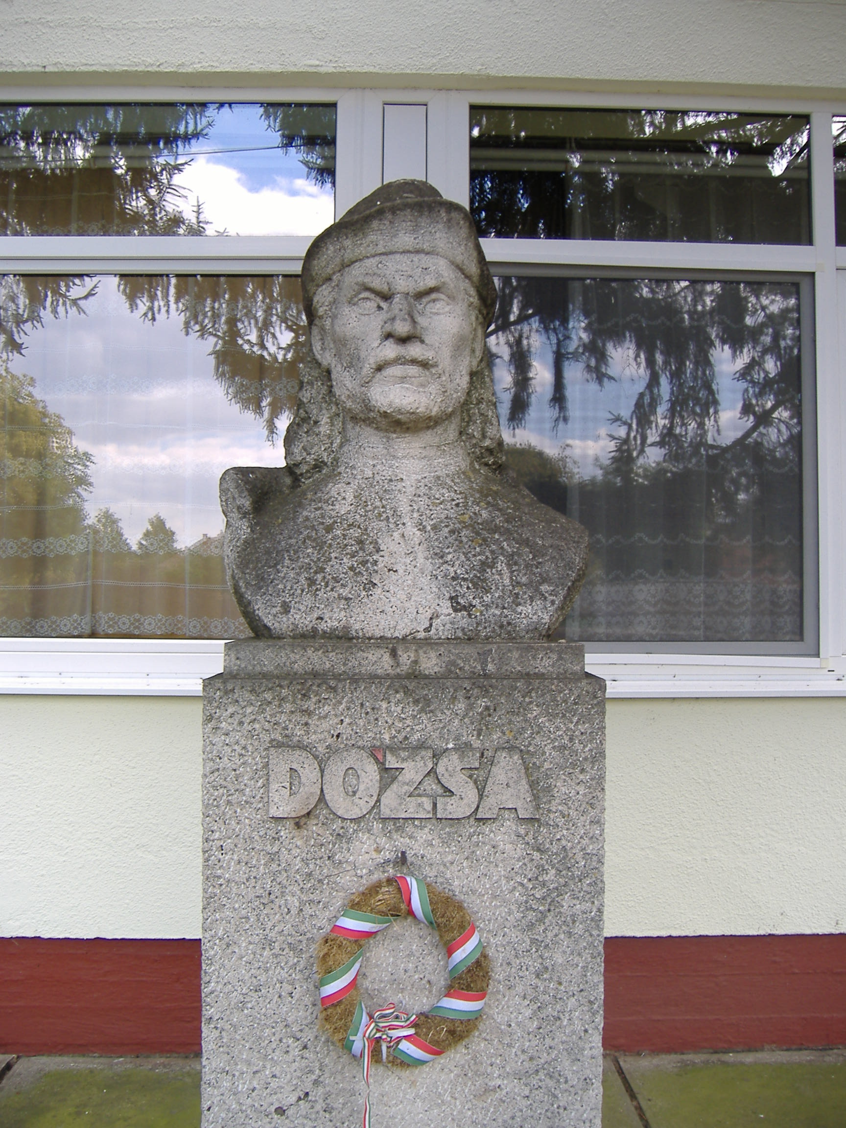 Statue of Gyögy Dózsa, leader of the peasants' revolt, man-at-arms in Apátfalva, village near Makó, Hungary. Sculptor: Mihály Dabóczi (1905–1980) in 1980